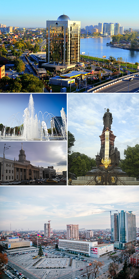 Vies of Krasnodar